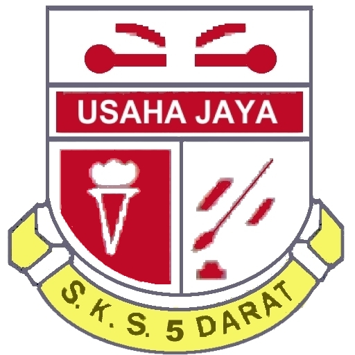 SKS5D Logo